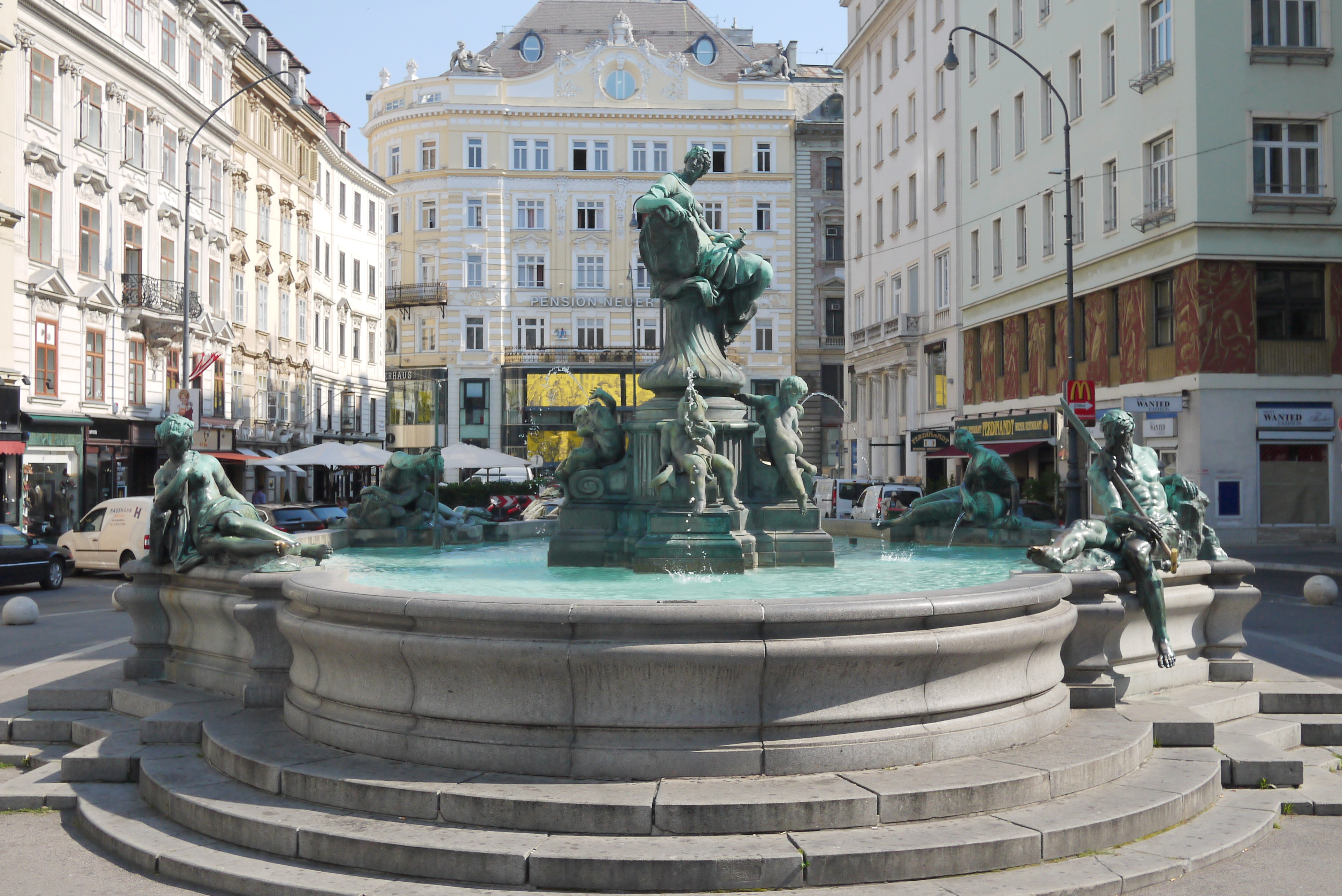 Providentiabrunnen, Donnerbrunnen at Neuer Markt, Vienna.